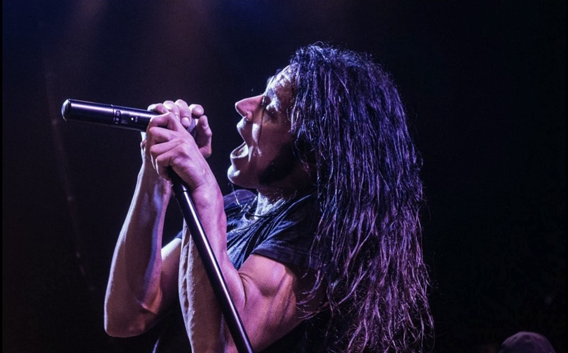 photo of singer Joe Grah on stage at Gas Monkey Live in Dallas, Texas August 10, 2018.